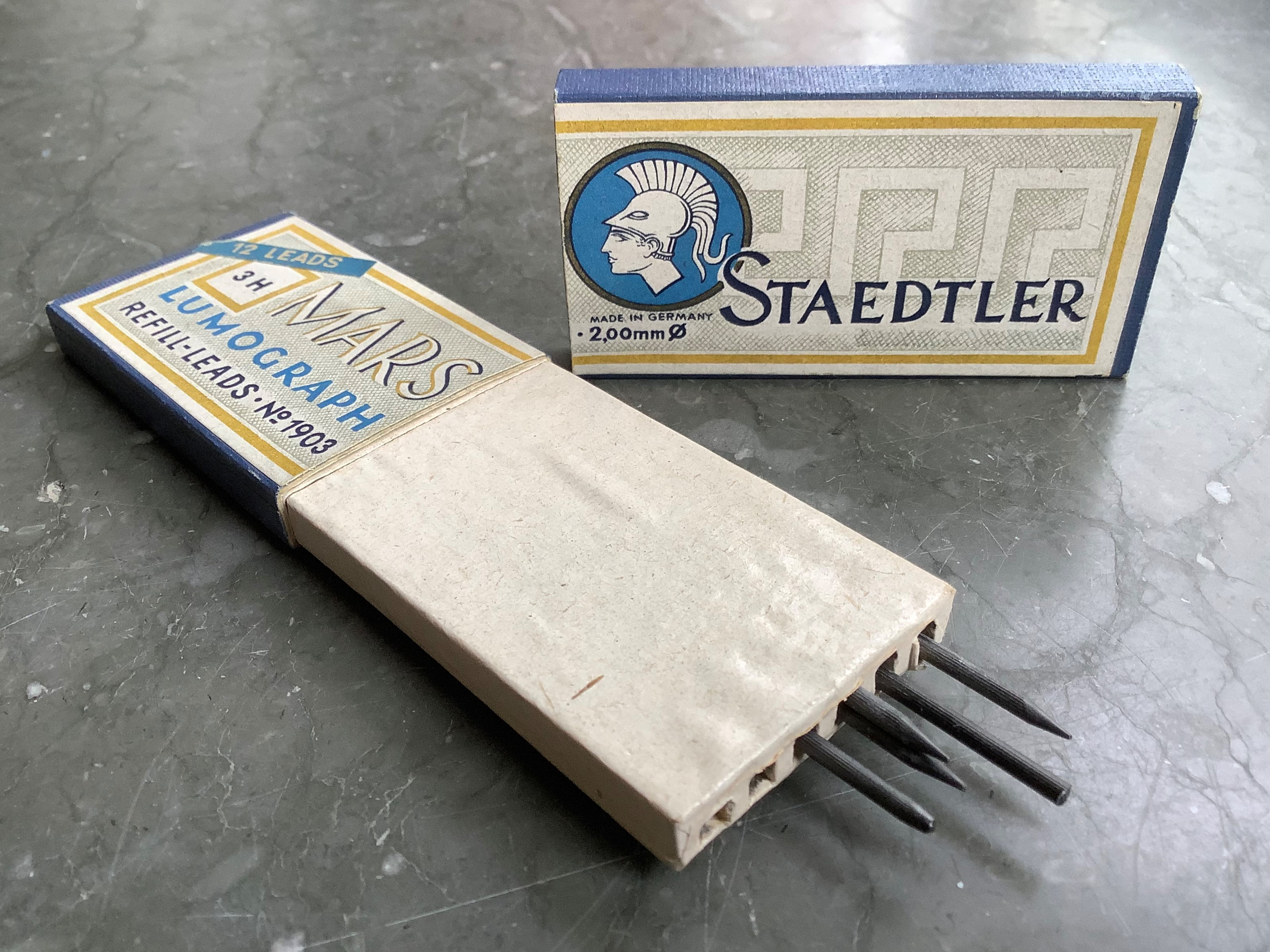 Staedtler Mars Lumographs refill leads No. 1903. Staedtler Mars logotype from 1925.